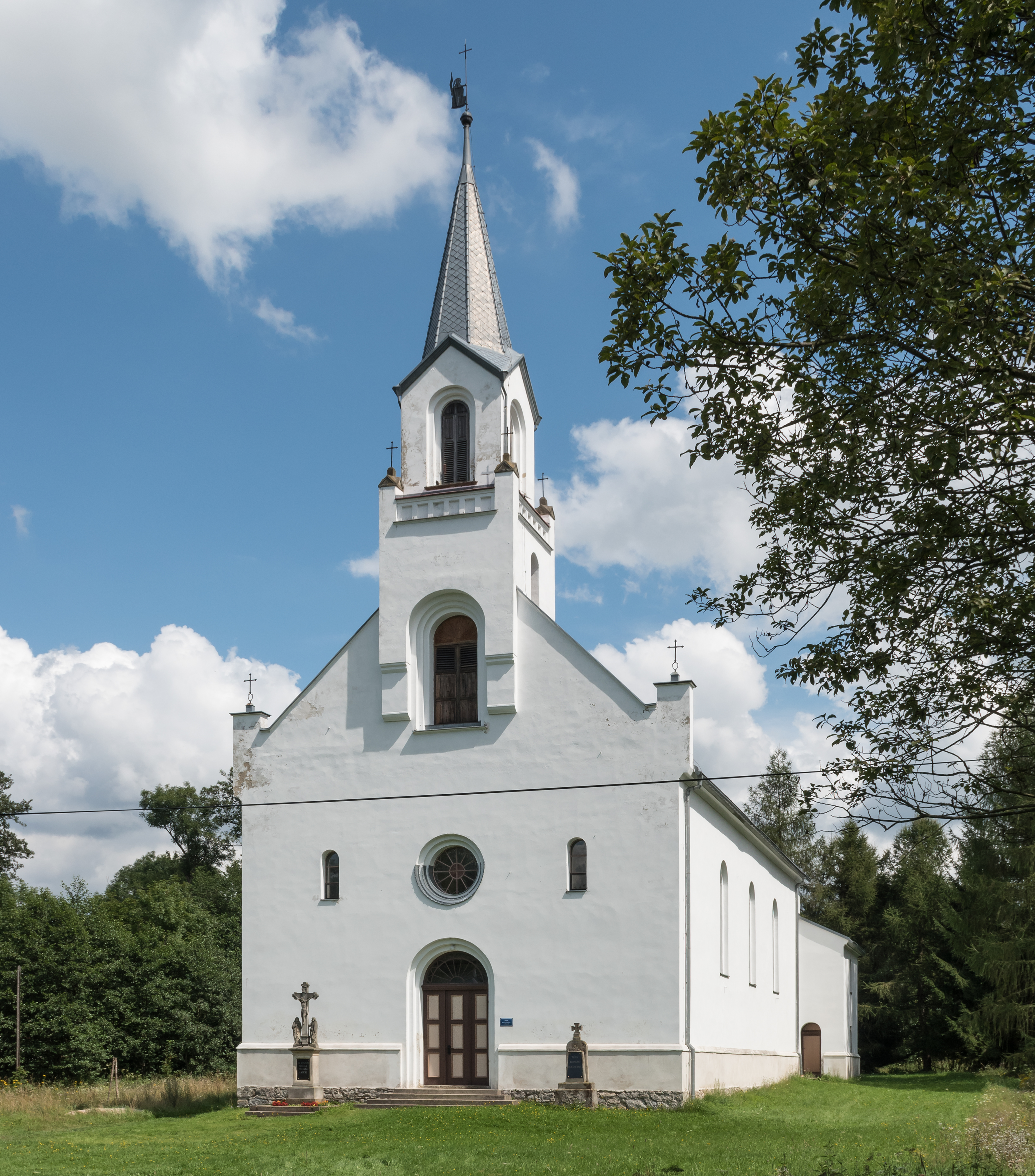 Saint Wenceslaus church in Pisary